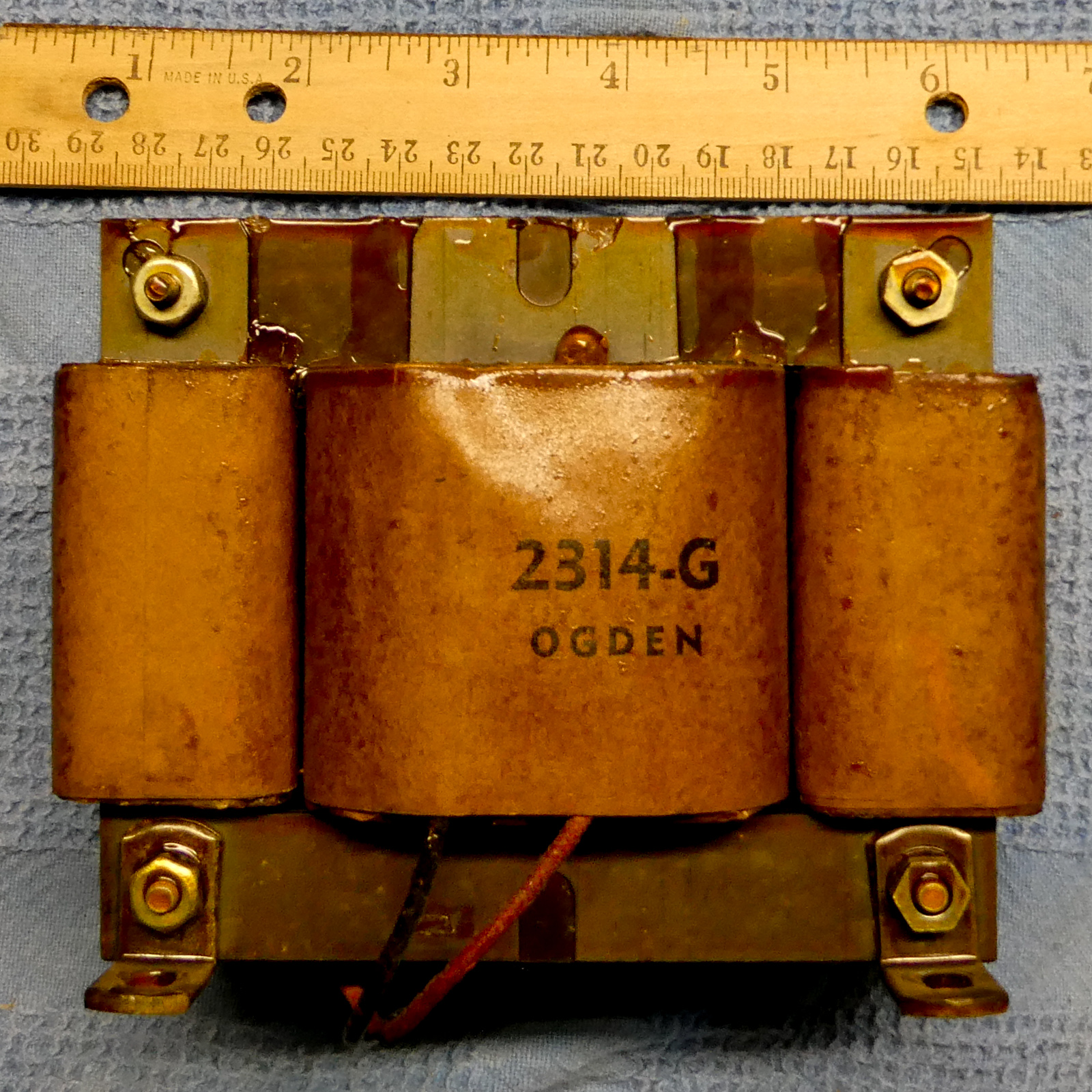 This is a small magnetic amplifier used to control lights at 120 volts, 60 Hz. The large central winding is the control winding.